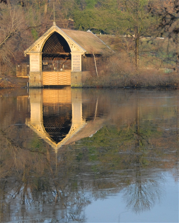 Frigate Shelter of 1832 on Peacock Island, Berlin